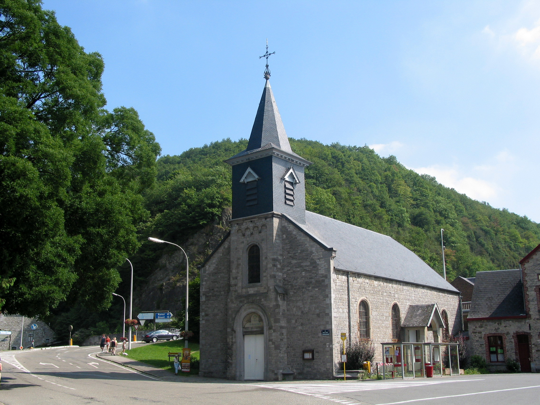 Hastière-Lavaux (Belgium), the St. Nicolas.